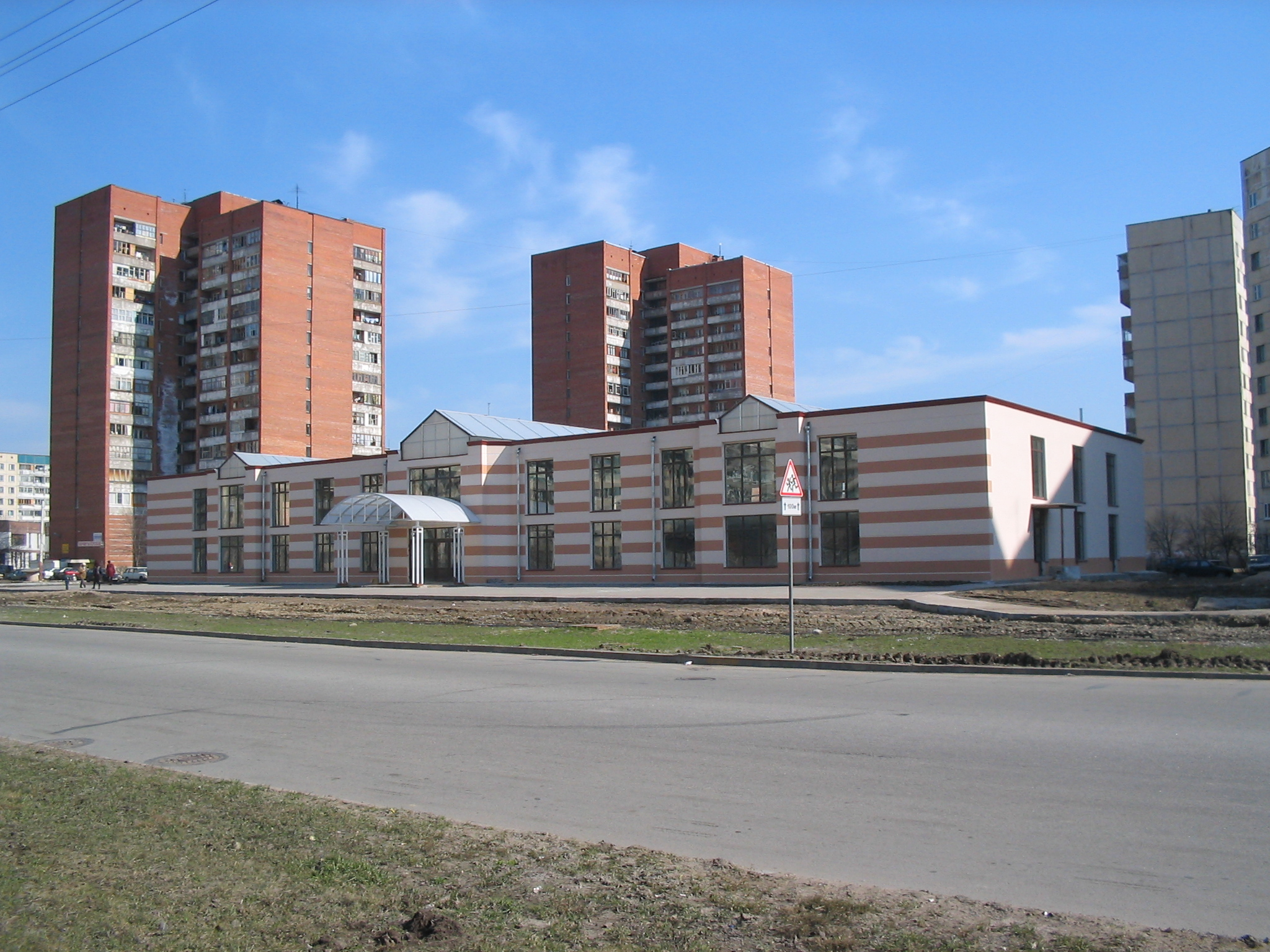 47 Udarnikov Prospekt St. Petersburg